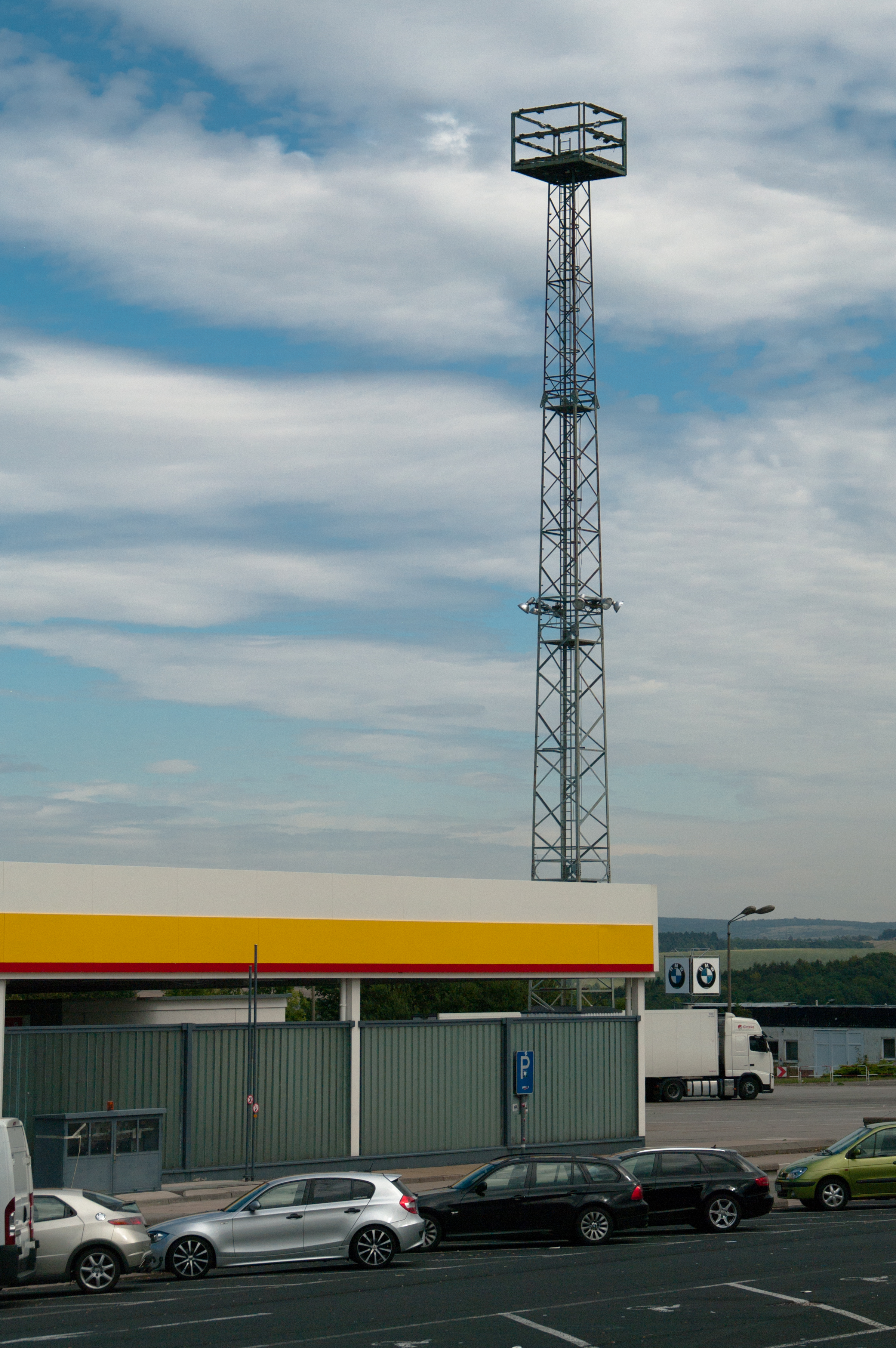 Autobahn rest area on the former inner German border at Autobahn A4.